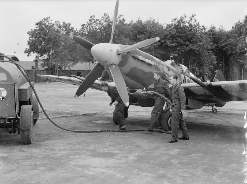 Royal Air Force 1939-1945- Fighter Command The Spitfire XIV was the second Griffon-powered version of the fighter to see service. Unlike the Mk XII, it was intended for combat at all altitudes, and was built in large numbers. The size of its five-bladed propeller is apparent in this view of a No 610 aircraft refuelling at Friston in July 1944. The squadron was busy helping to repel the V-1 offensive, and would claim a total of 50 flying bombs by the end of the summer.